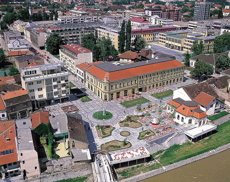 This is a picture of Valjevo, Serbia that is sharper